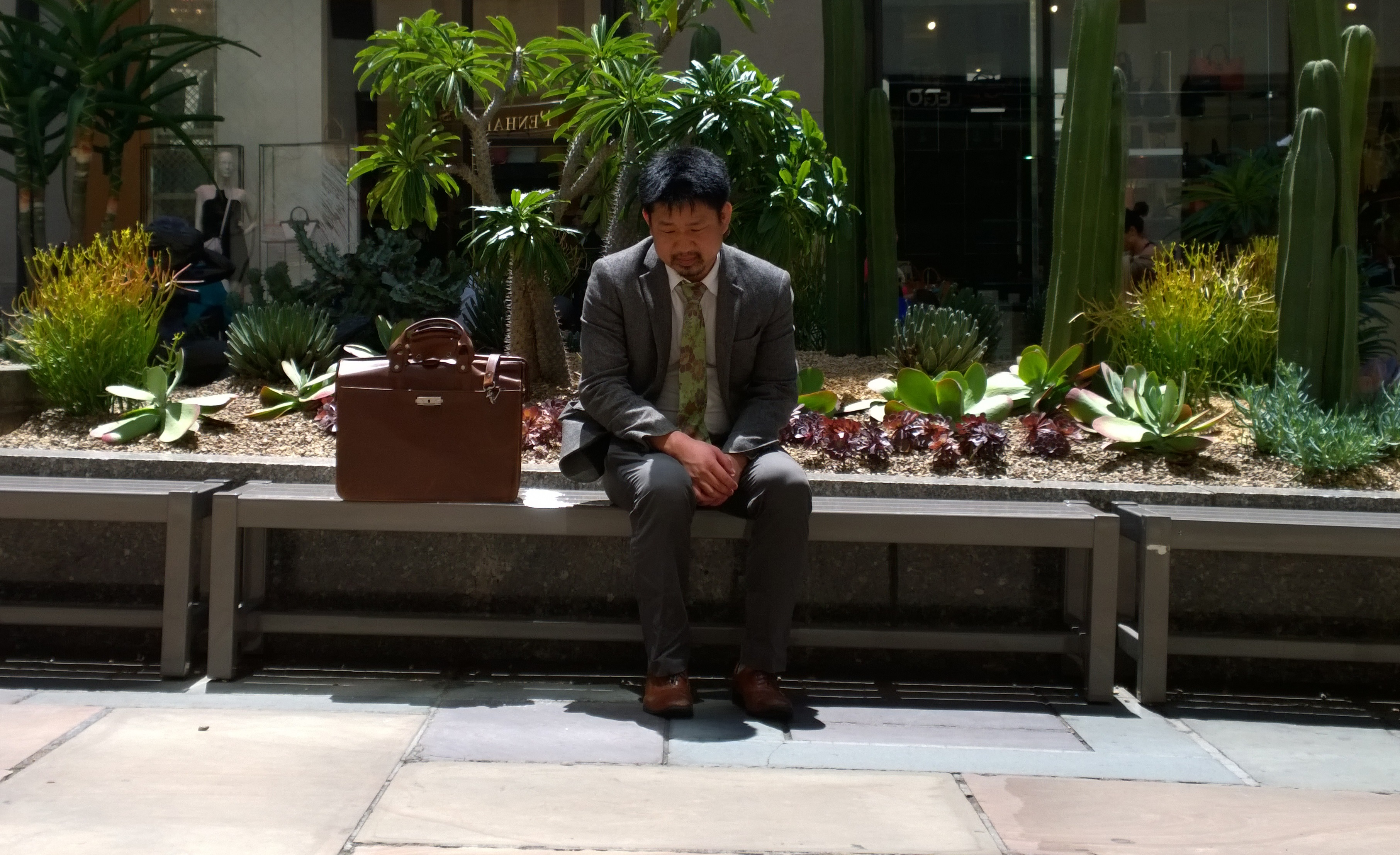 This is a photograph of St. Lenox at 30 Rock circa 2016.